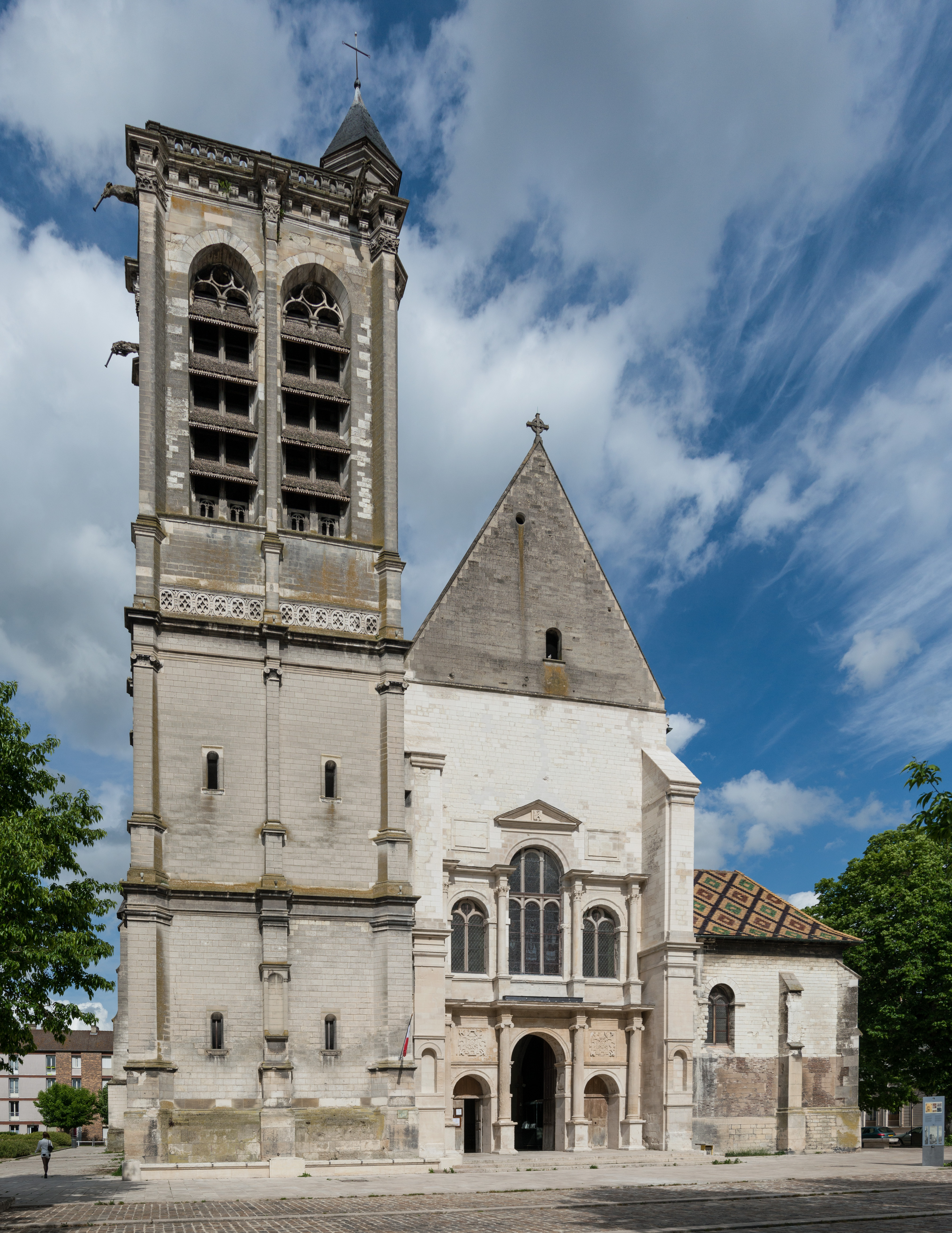 The west facade of Saint-Nizier in Troyes